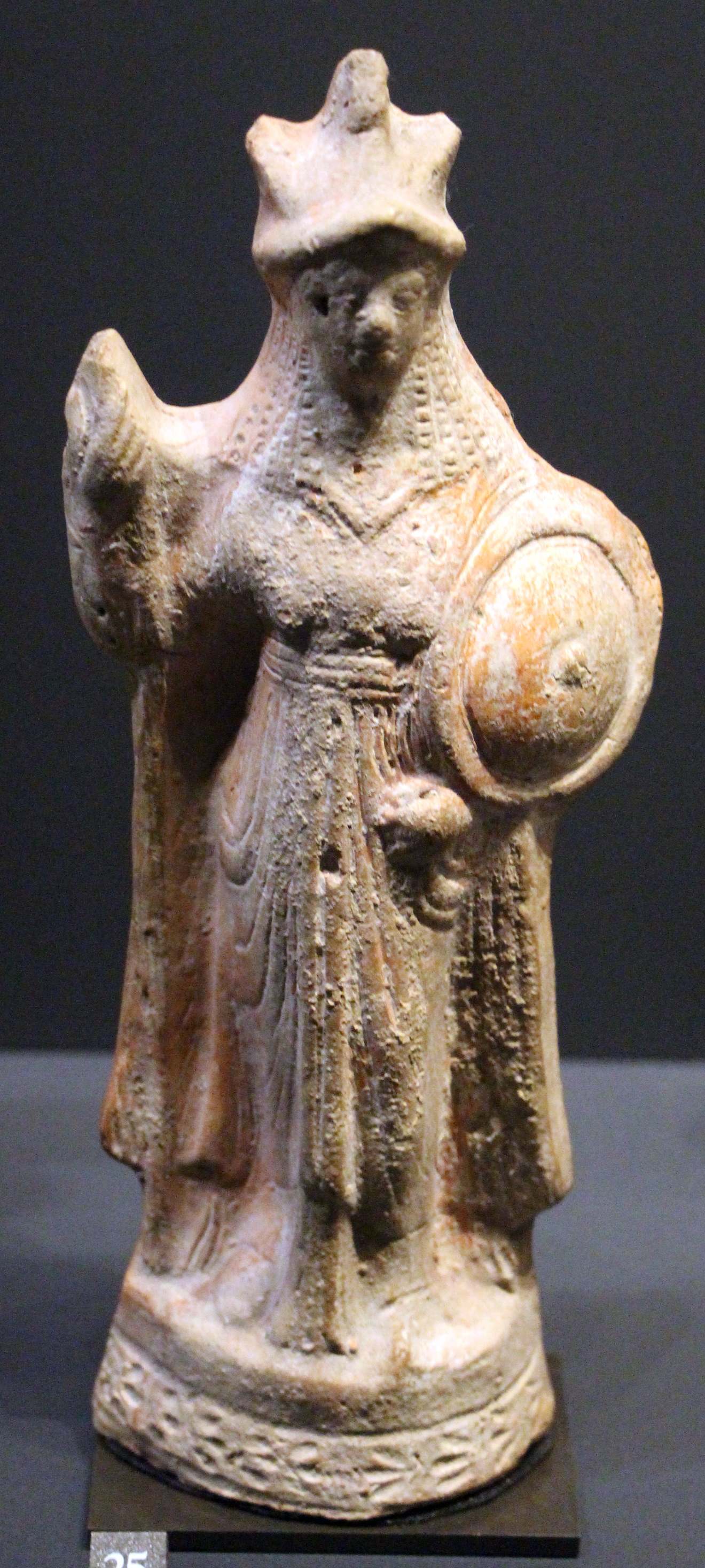 East Mediterranean in the Roman Empire antiquities in the Louvre